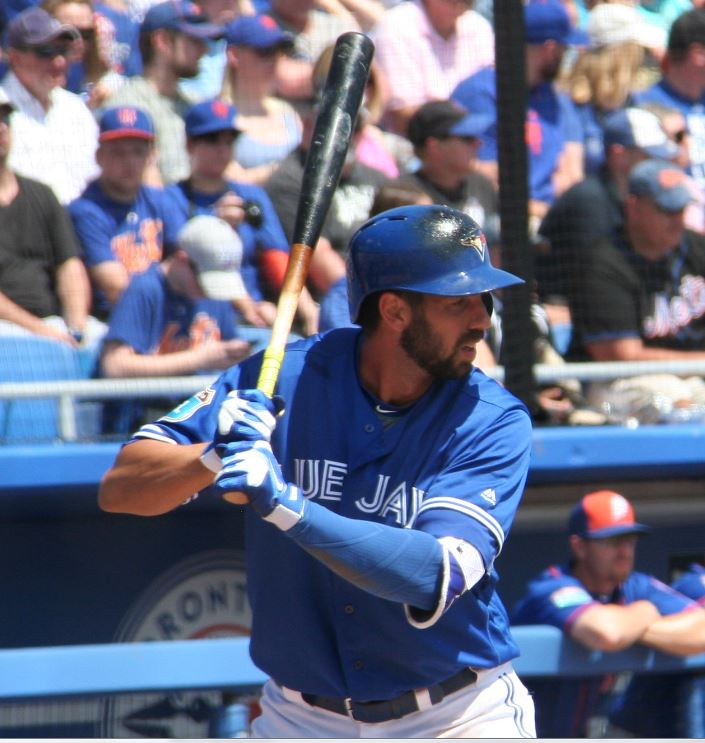 Chris Colabello on March 23, 2016